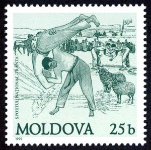 Stamp of Moldova